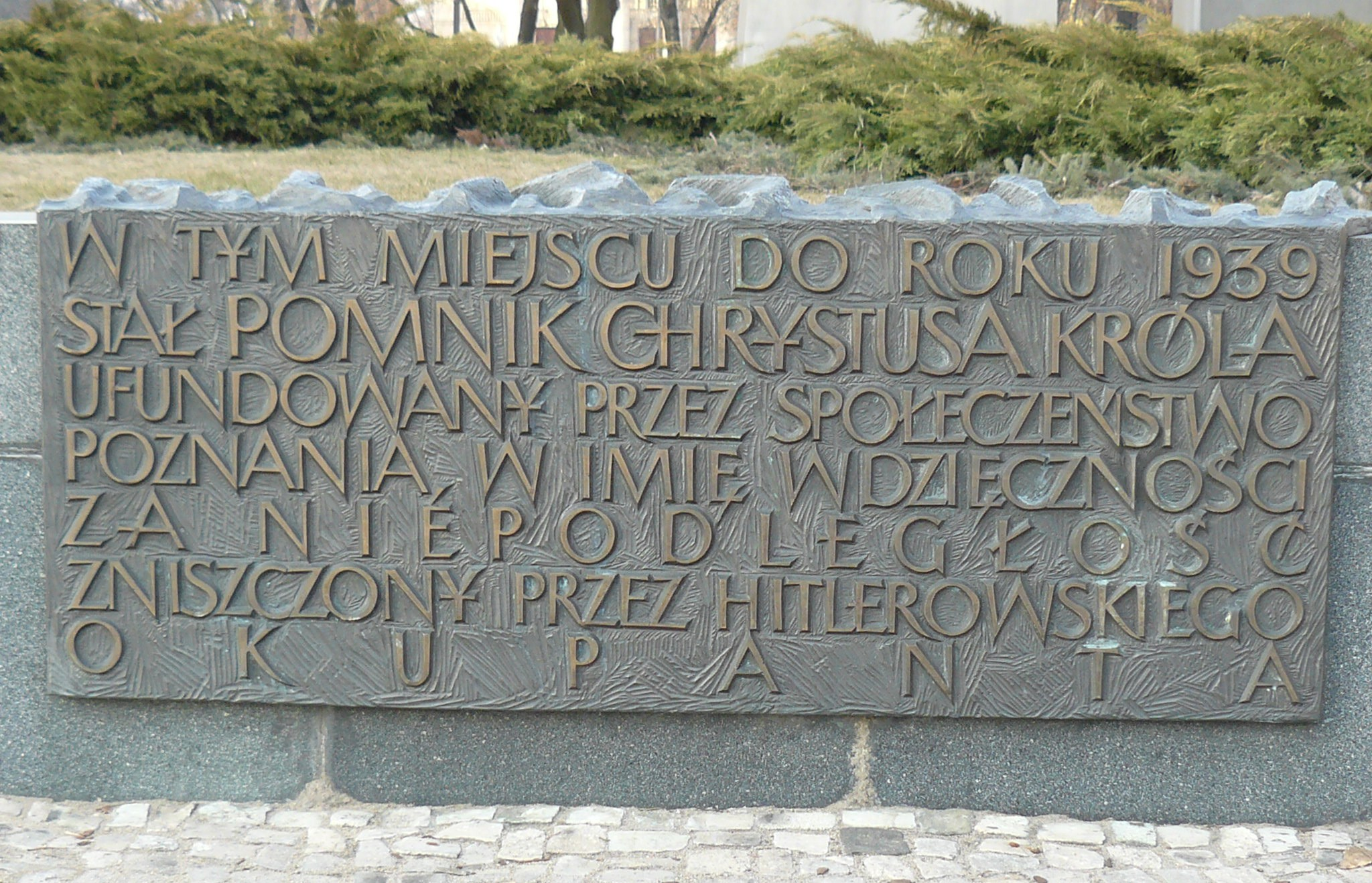 Table of Monument of Jesus Heart in Poznan.